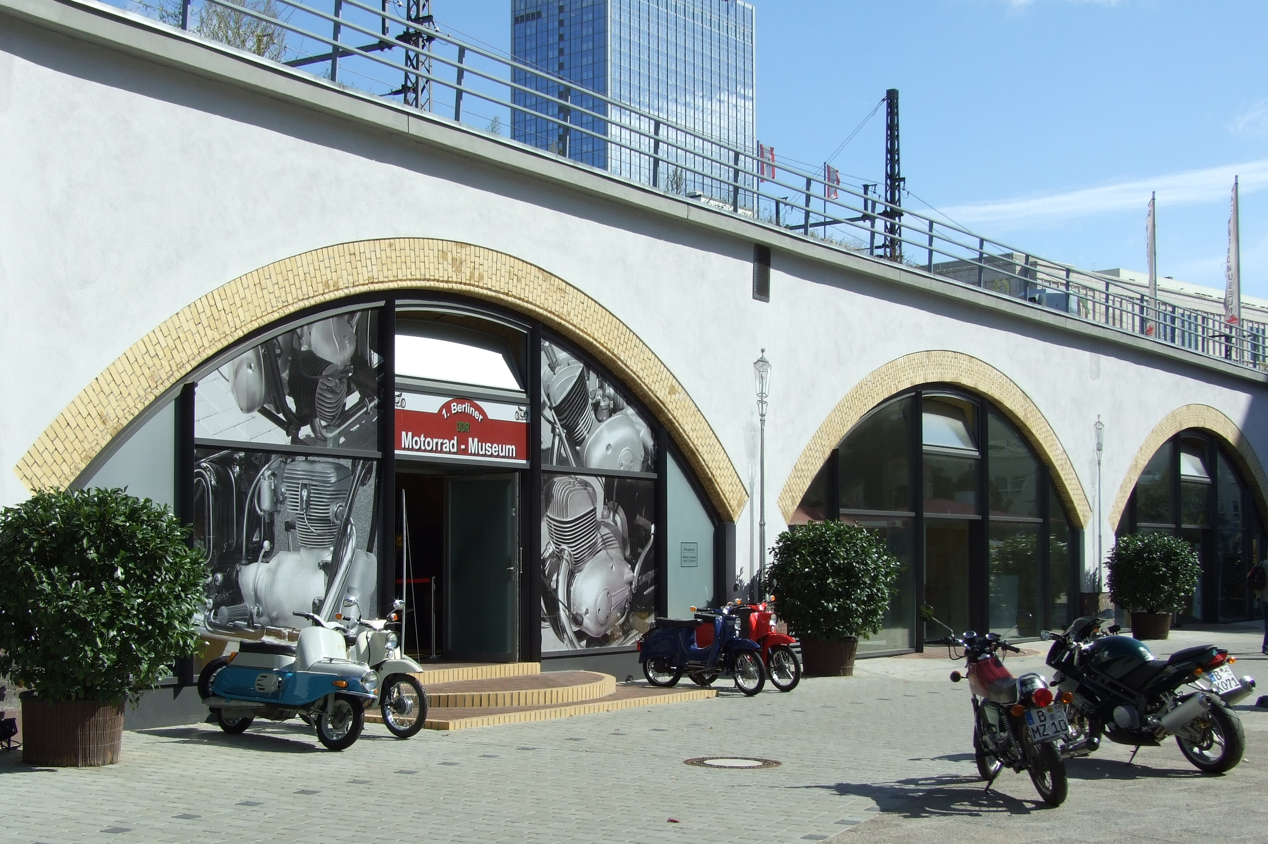 Entrance to the first museum of motorcycles in the GDR